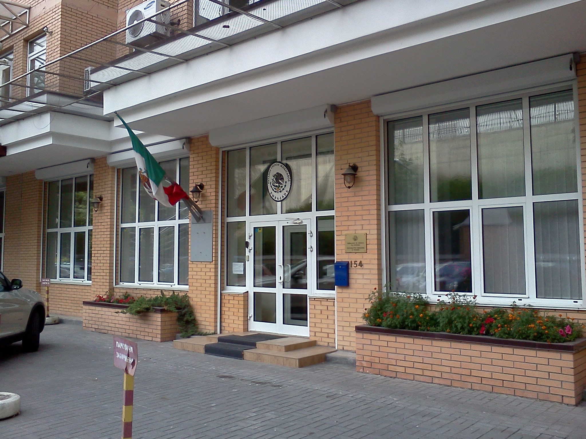 Embassy of Mexico in Kyiv